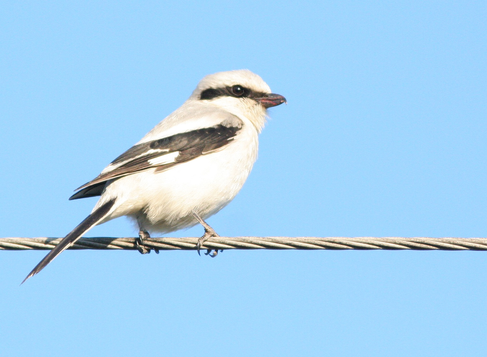 Great Grey Shrike, Lasy Janowskie, Poland 2007